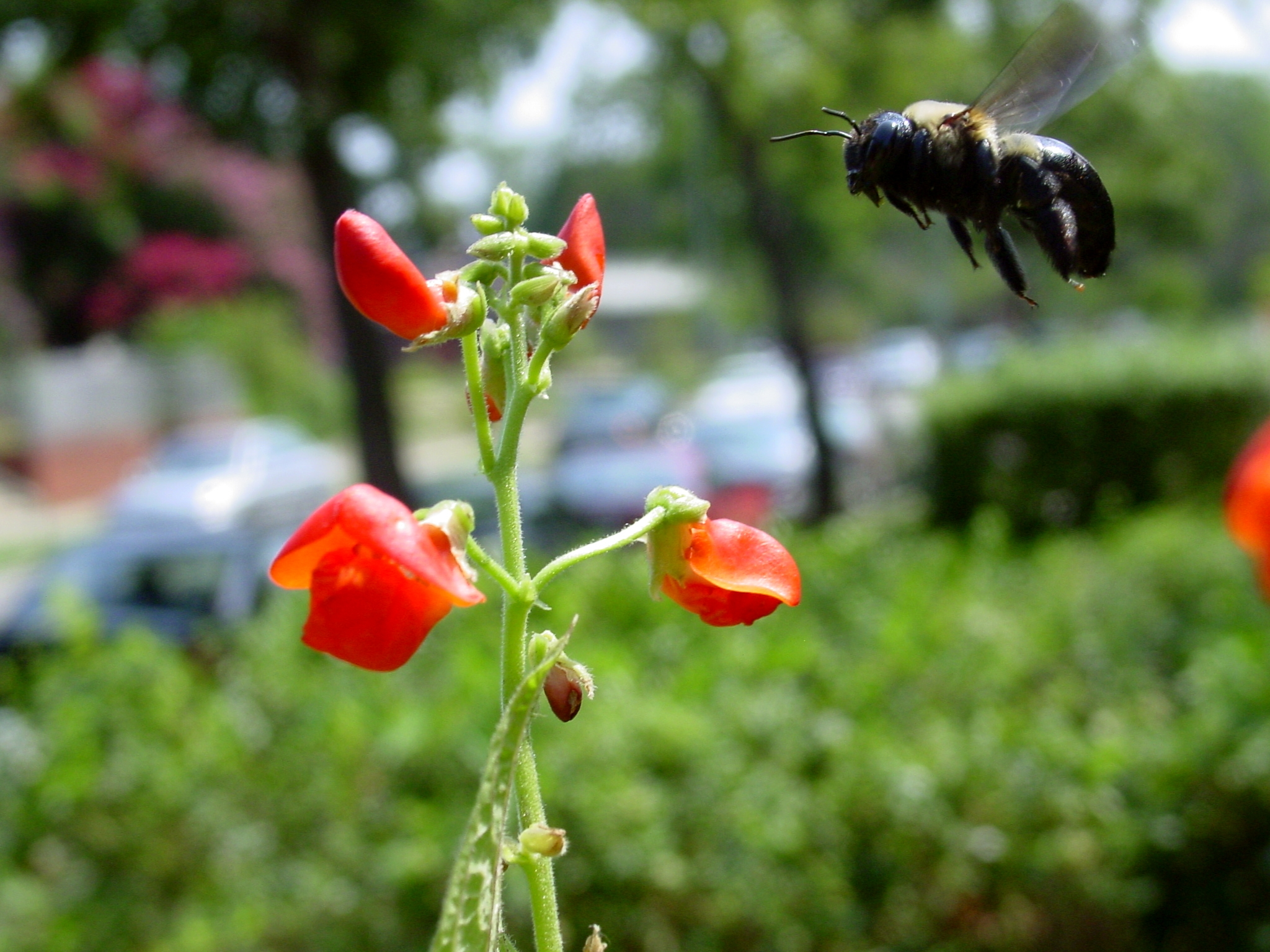 Bean flowers and a bumblebee in front of our house in Washington, D.C.